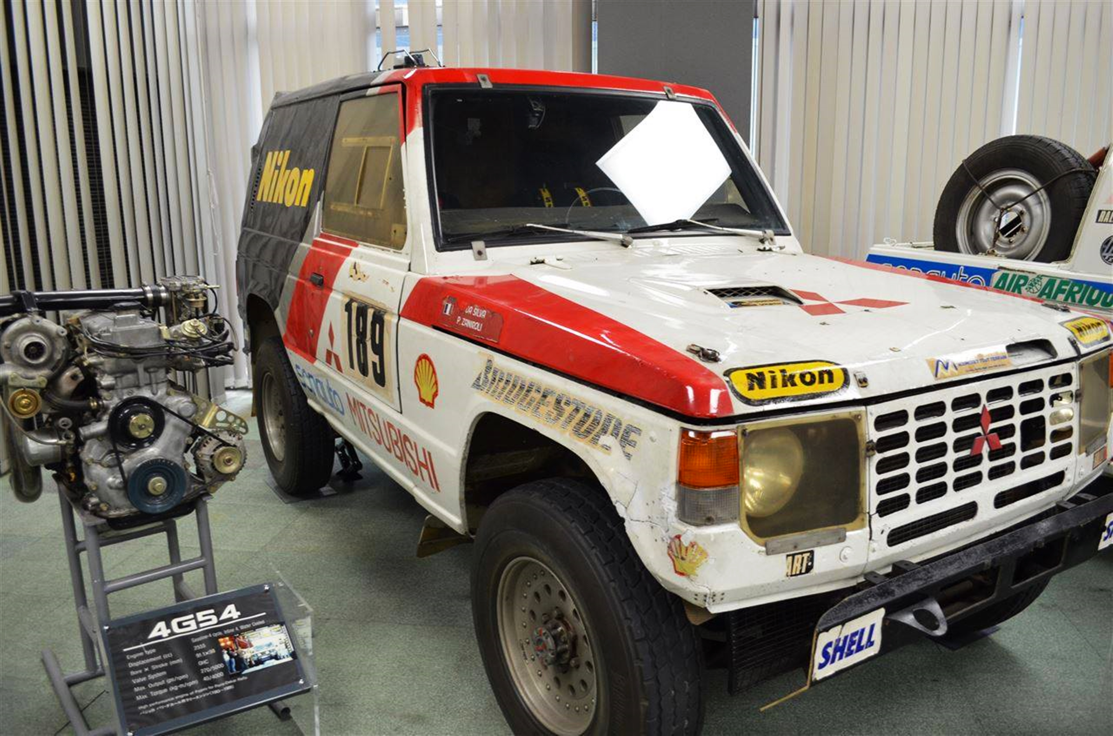 Mitsubishi Pajero (1985 Paris-Dakar Rally Champion) in Mitsubishi Auto Gallery